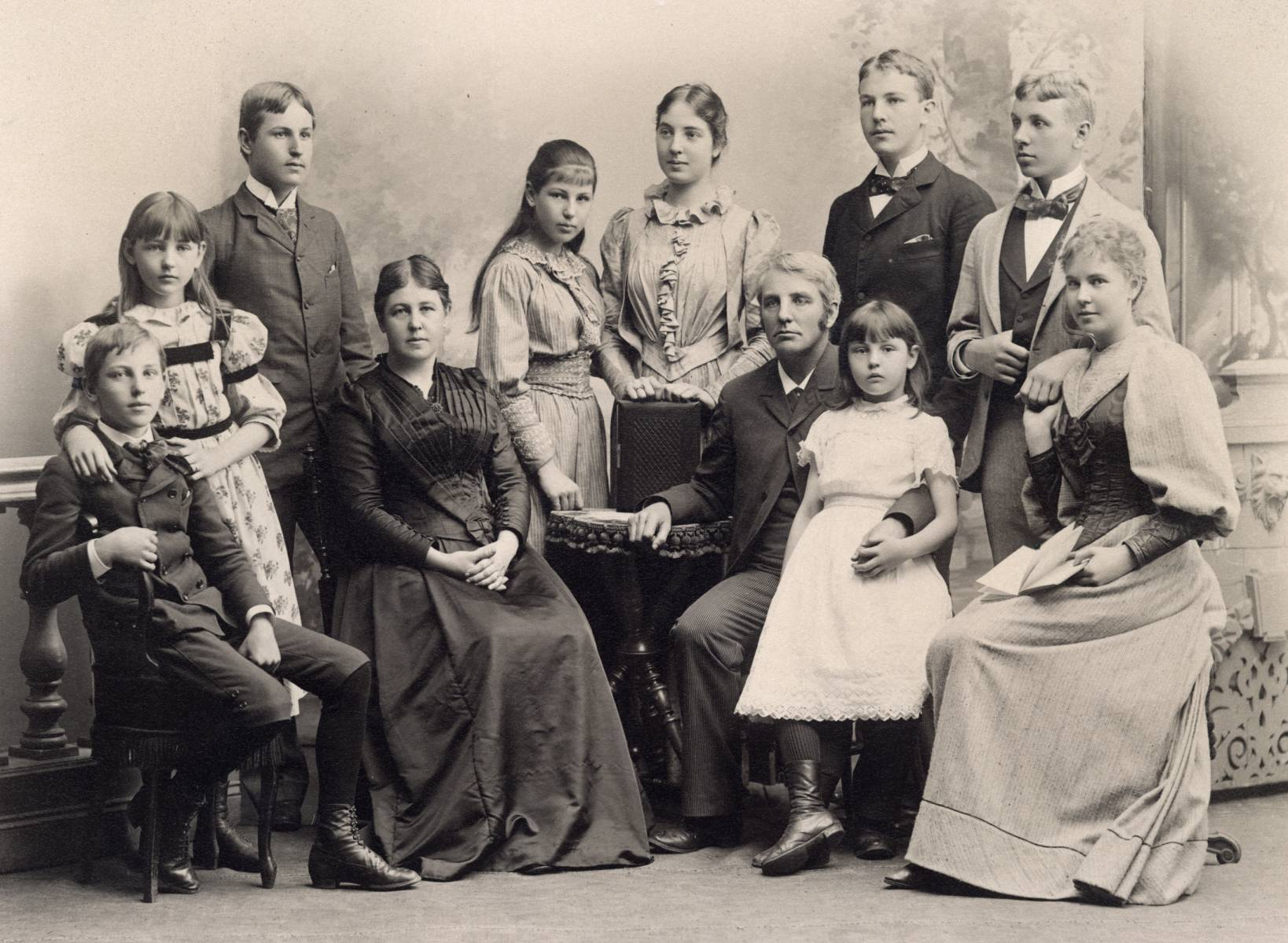 From a family archive.